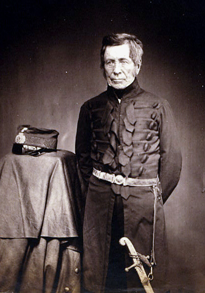 John Fox Burgoyne CALL NUMBER: PH - Fenton (R.), no. 185x (A size) [P&P] Restricted access: Materials extremely fragile; Served by appointment only. REPRODUCTION NUMBER: LC-USZC4-9296 (color film copy transparency) SUMMARY: Lieutenant General Sir John Burgoyne, three-quarter length portrait, facing front, hands behind him, his hat and coat by his side.